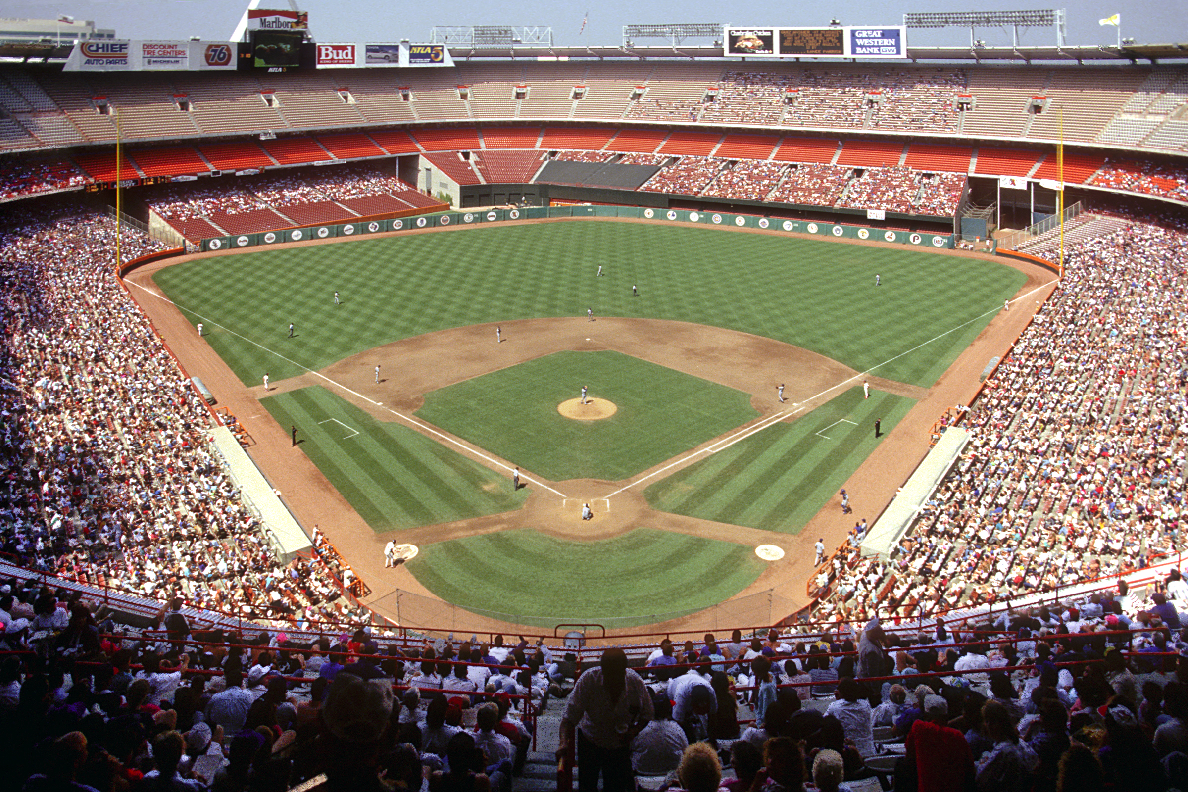 After working a game in San Diego for ESPN, I stopped by Anaheim Stadium on my way home on June 12, 1991 to watch and photograph former teammates from the Brewers and the Angels. Here's a look at the best shots from that game.